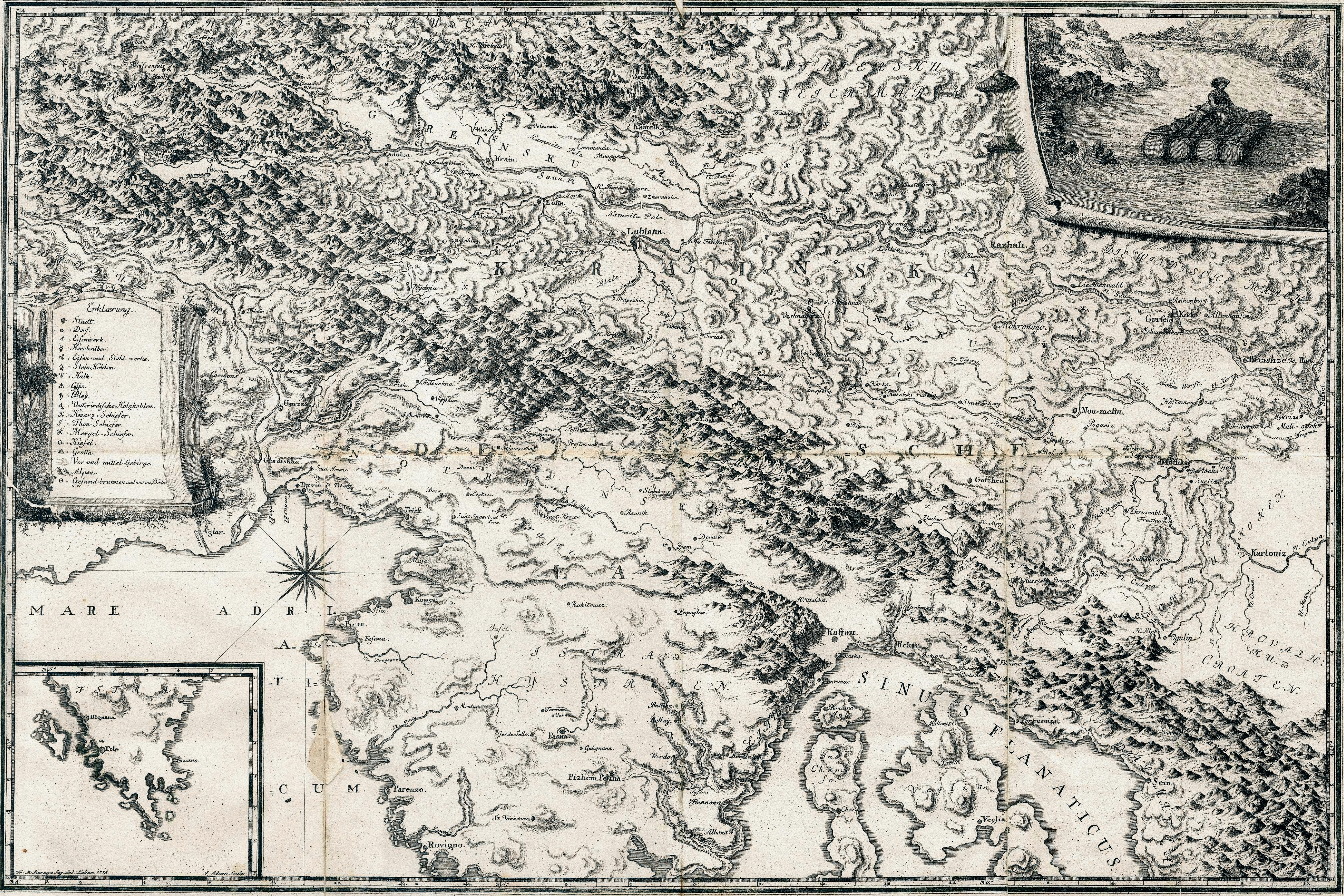 The Carniolan Land, a map from the work Oryctographia Carniolica (ed. Belsazar Hacquet). Ca 1:500.000; 65 x 43 cm. In the right lower corner, a map of Istria; in the left upper corner a drawing of a timber floater on the Sava.